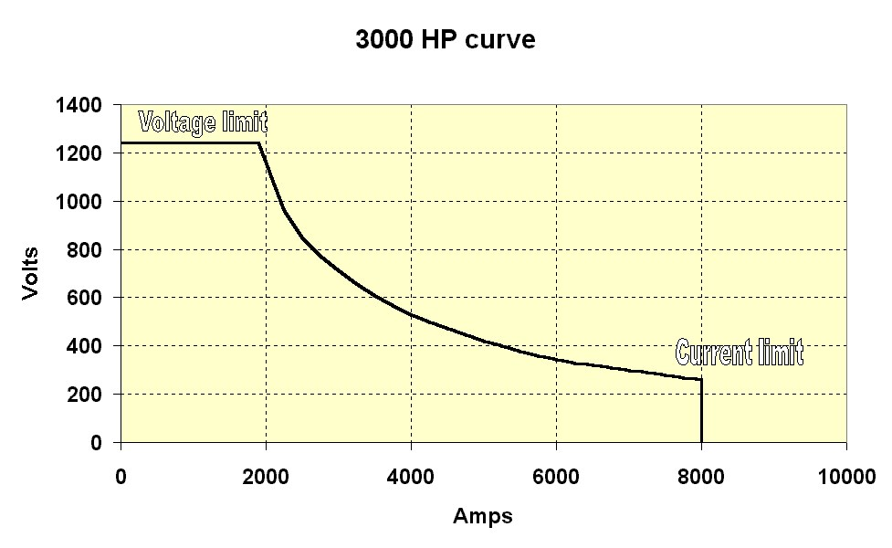 original image